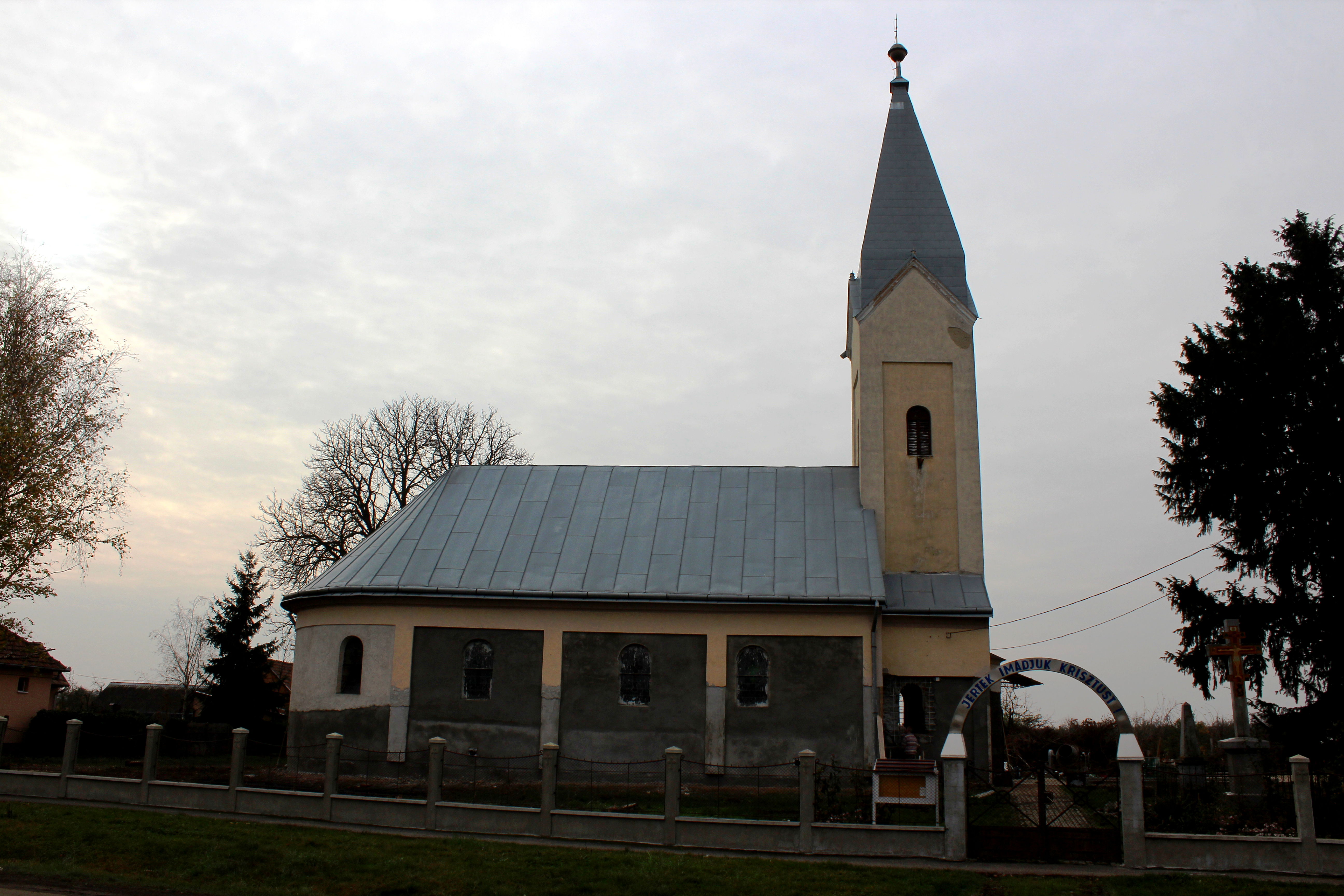 Greek Catholic church under reconstruction in Porcsalma, Hungary